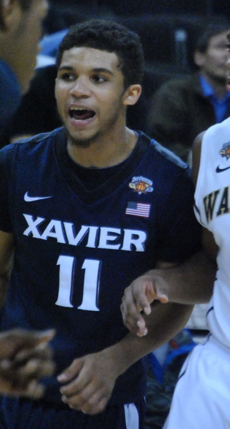 Codi Miller McIntyre and Dee Davis jockey for position at the Joel Coliseum